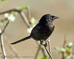 Taken by me, Mats Carnmarker, on Oct 21, 2007 at 081214 hours in Samburu National Reserve. Identification: African Drongo is a Dicrurus adsimilis